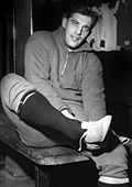 Gunnar Nordahl, Swedish Footballer of the year 1947.